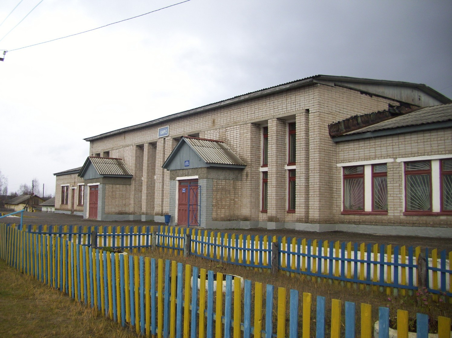 Train station in the town of Kirs, Kirov Oblast, Russia Удмурт: Кирс карлэн чугун сюрес вокзалэз, Киров улос, Россия